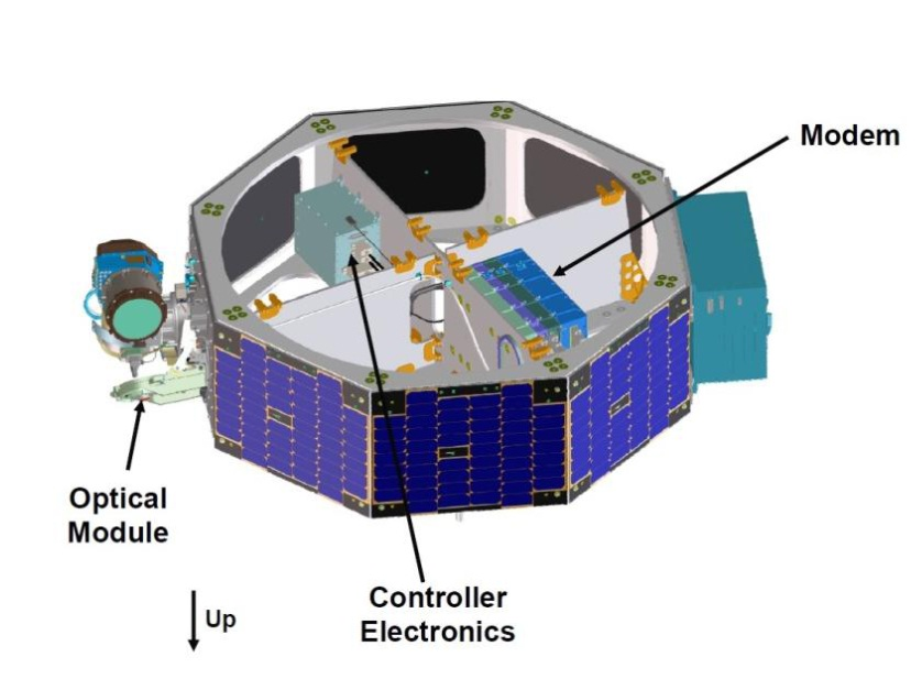 Image of the Lunar Lasercom Space Terminal onboard LADEE spacecraft